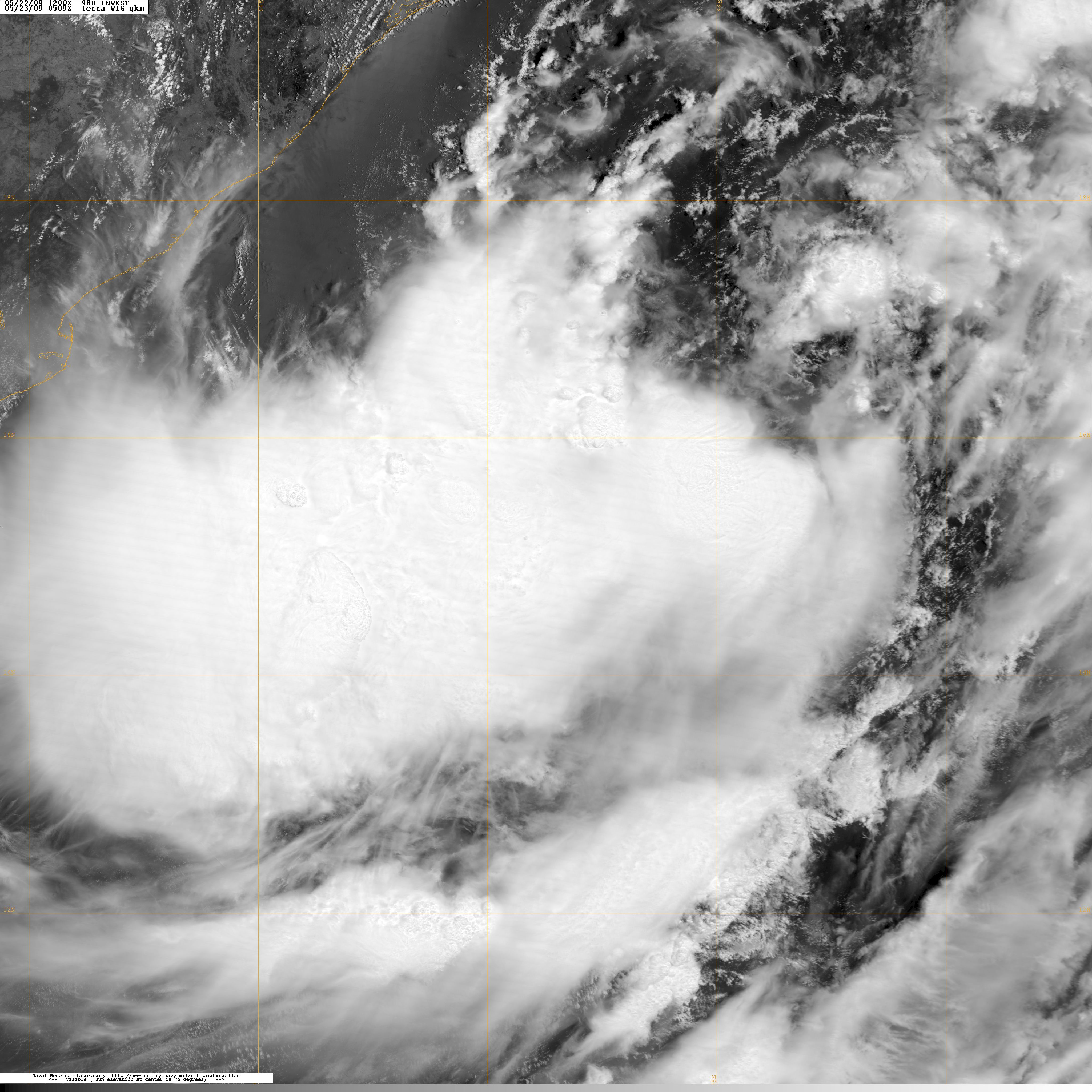 Depression BOB 02 on May 23, 2009